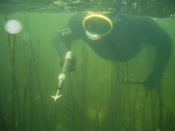 Underwater fisherman is looking for a trophy